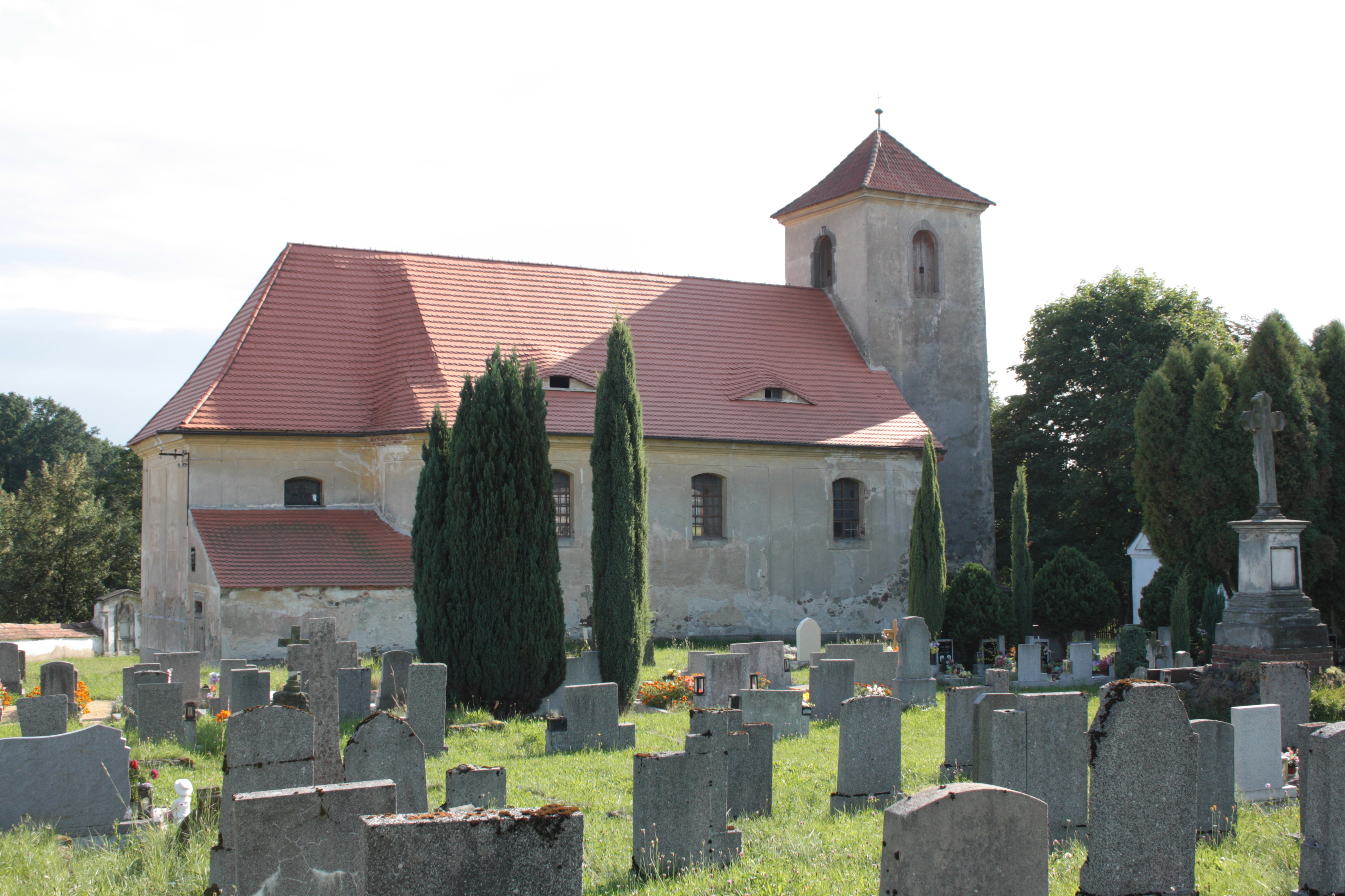 This photograph was taken with a DSLR from WMCZ's Camera grant. Kostel svatého Jošta v Dolních Pertolticích.